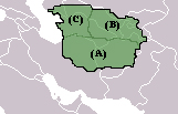 Historical regions of Iran: Greater Khorasan, Khwarezm, Ma Wara'un-Nahr